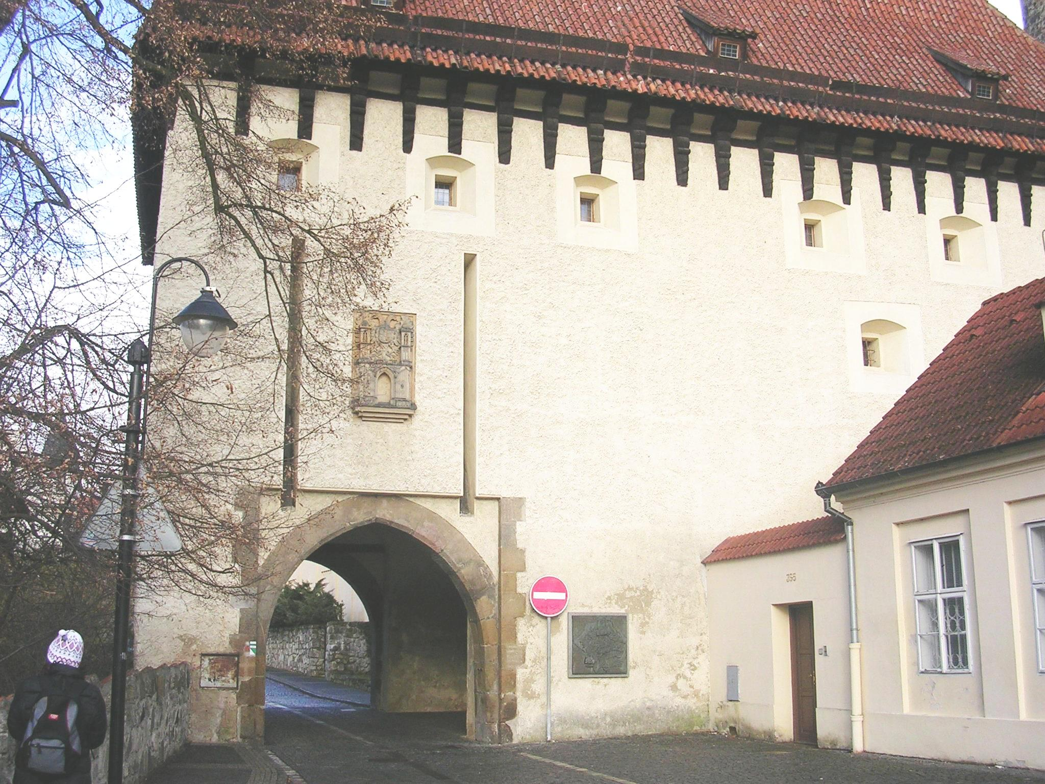 Tábor, the Czech Republic. Kotnov. The Bechyně Gate.